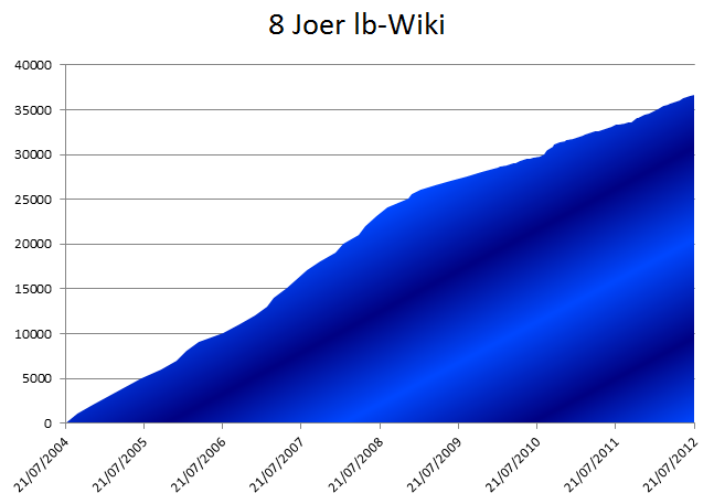 lb-wiki article count evolution (2004-2012)